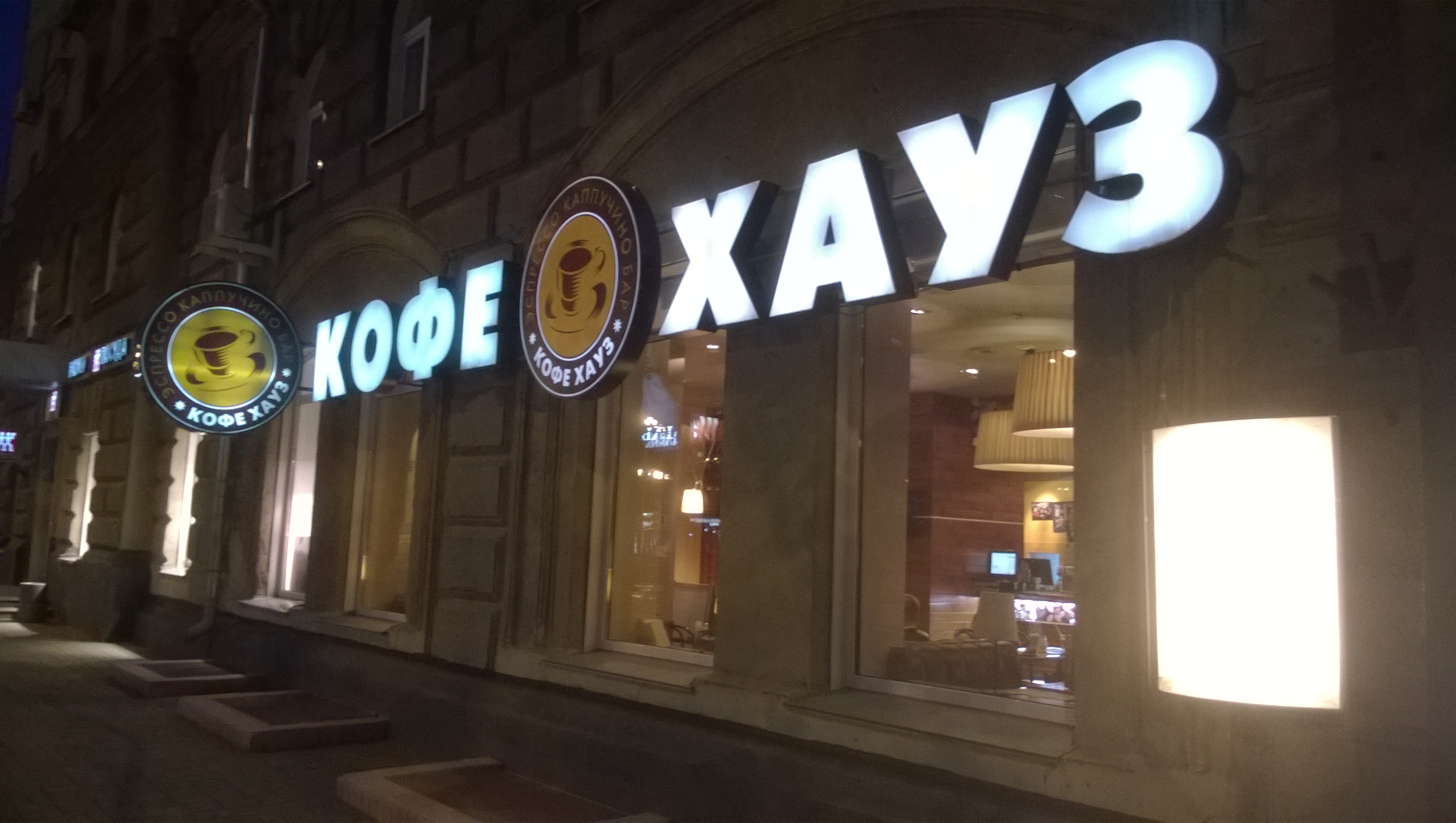 Сoffee house in Novosibirsk.